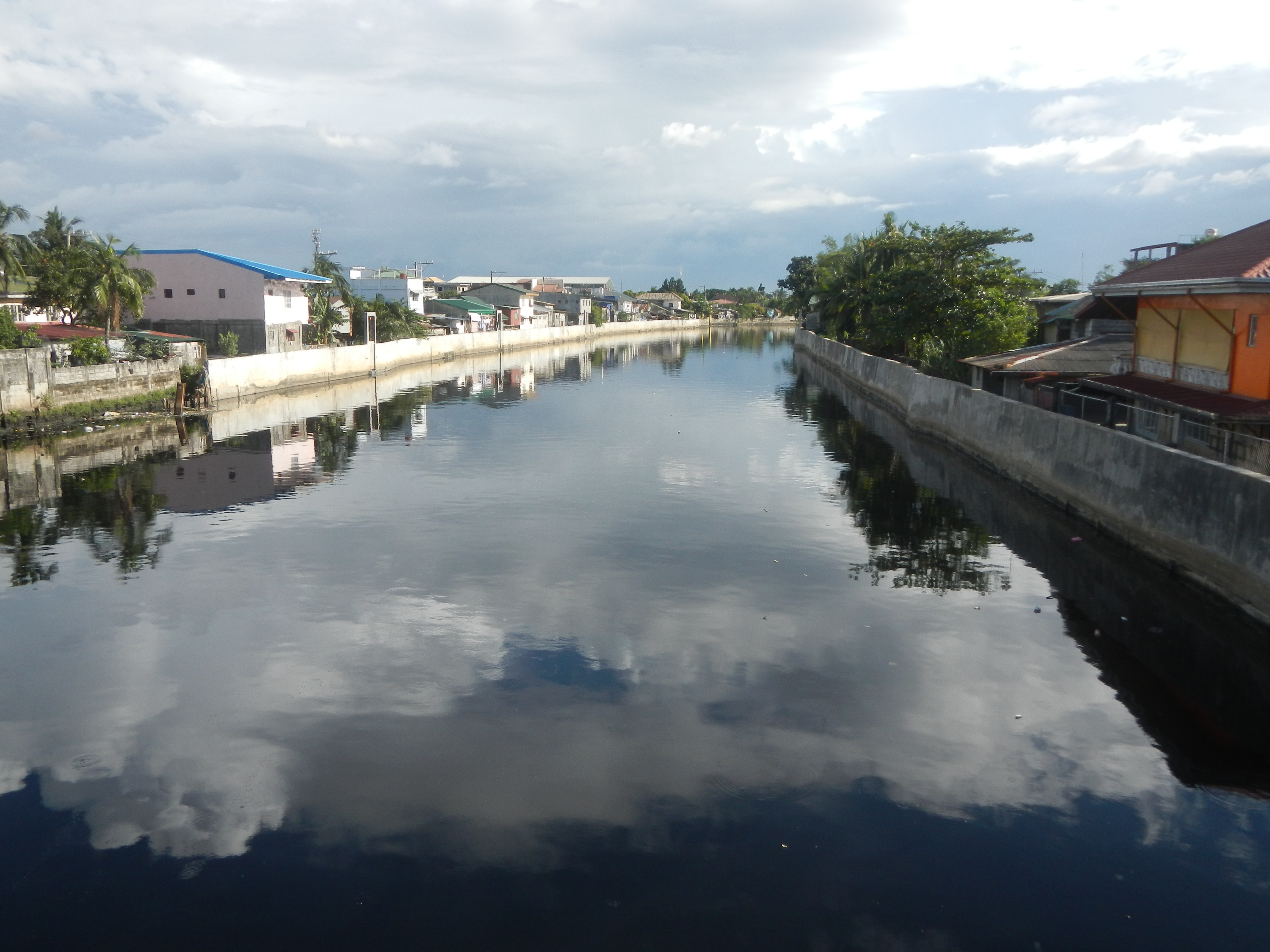 Barangays Ibayo 14°45'17"N 120°57'21"E Nagbalon 14°44'47"N 120°56'29"E Poblacion I 14°45'15"N 120°56'49"E Poblacion II 14°45'28"N 120°56'35"E Marilao, Bulacan Battle of Marilao River Marilao River in Ibayo-Nagbalon-Poblacion I, Marilao, Bulacan Bridge and River accessed from MacArthur Highway or Manila North Road MacArthur Highway (Marilao and Bocaue, Bulacan section) or Manila North Road (Note: Judge Florentino Floro, the owner, to repeat, Donor Florentino Floro of all these photos hereby donate gratuitously, freely and unconditionally all these photos to and for Wikimedia Commons, exclusively, for public use of the public domain, and again without any condition whatsoever).